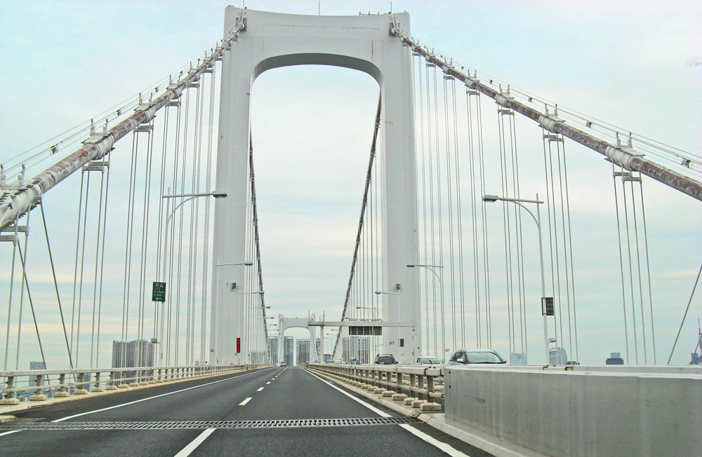 I took this photo.